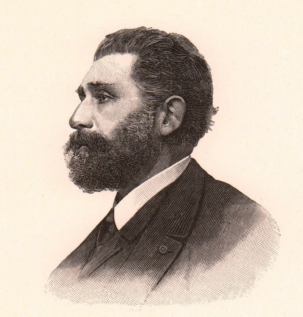 Tony Robert-Fleury (1837-1911), French painter